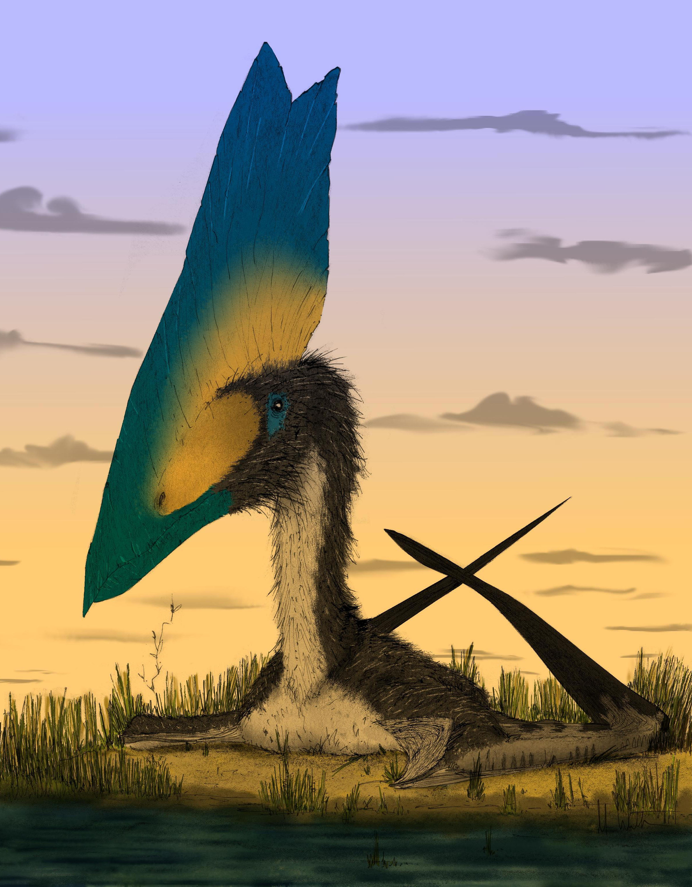 Life restoration of Thalassodromeus sethi by Mark Witton.